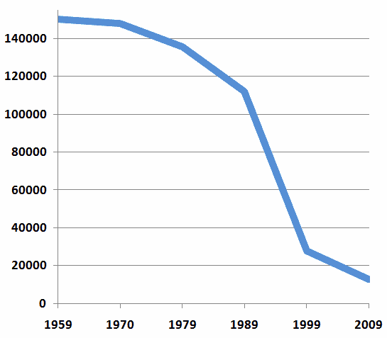 Jews in Belarus, censuses 1959-2009 data from official sources: 1959-1999 2009